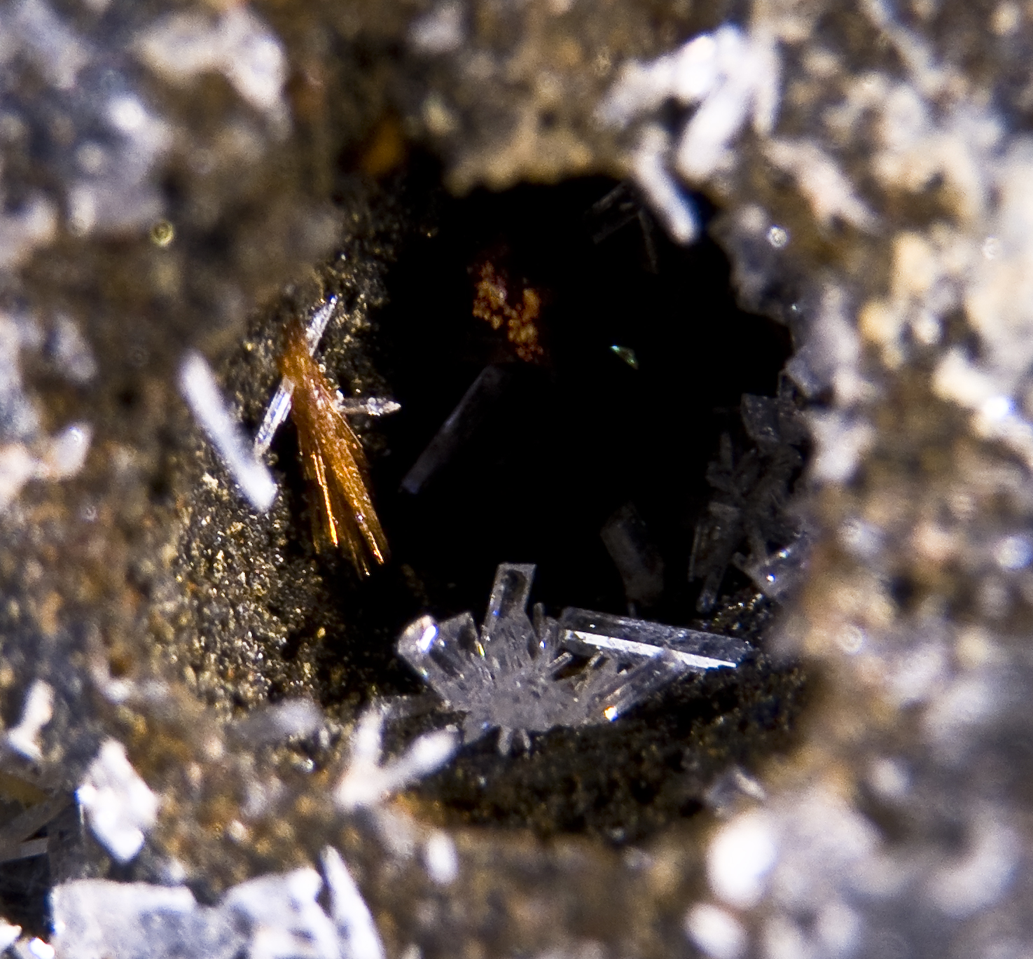 Ludlockite (reddish with laurionite (colorless) - Locality: Thorikos Bay slag, Thorikos area, Lavrion District slag localities, Lavrion (Laurion; Laurium) District, Attikí (Attica; Attika) Prefecture, Greece - (XX1mm)